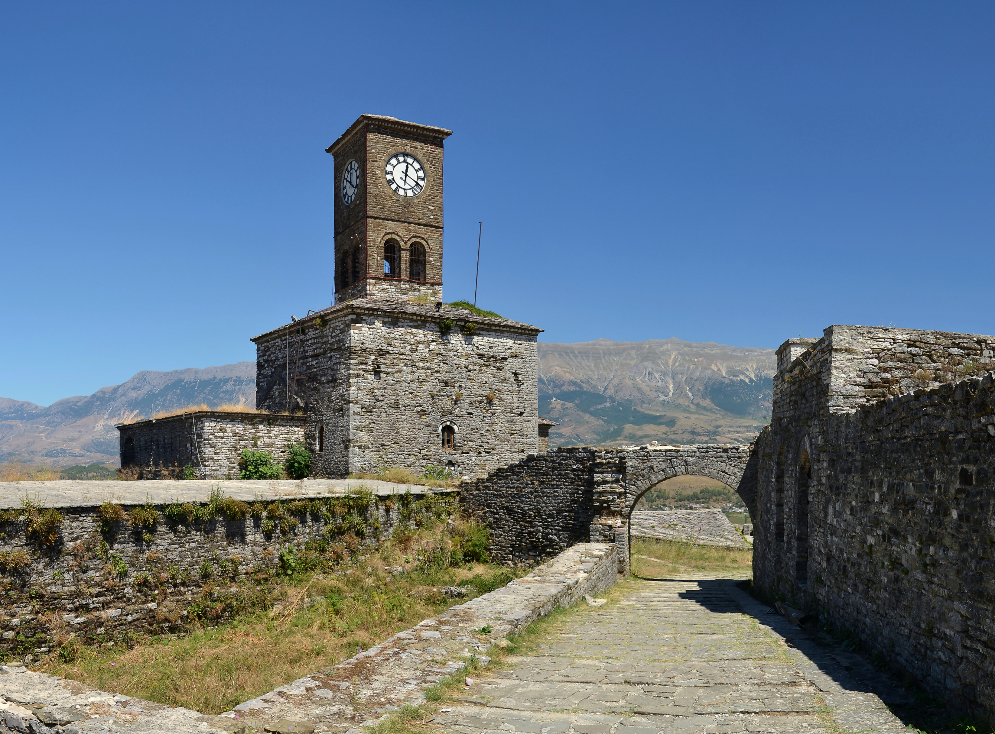 Gjirokastër Castle, Albania - Clock Tower